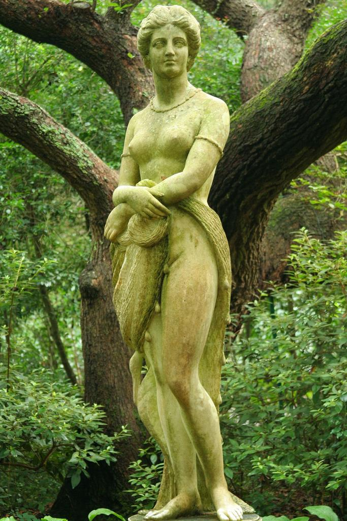 This statue, created by Maria Louisa Lander in 1859, stands in the Elizabethan Gardens in Manteo, NC.